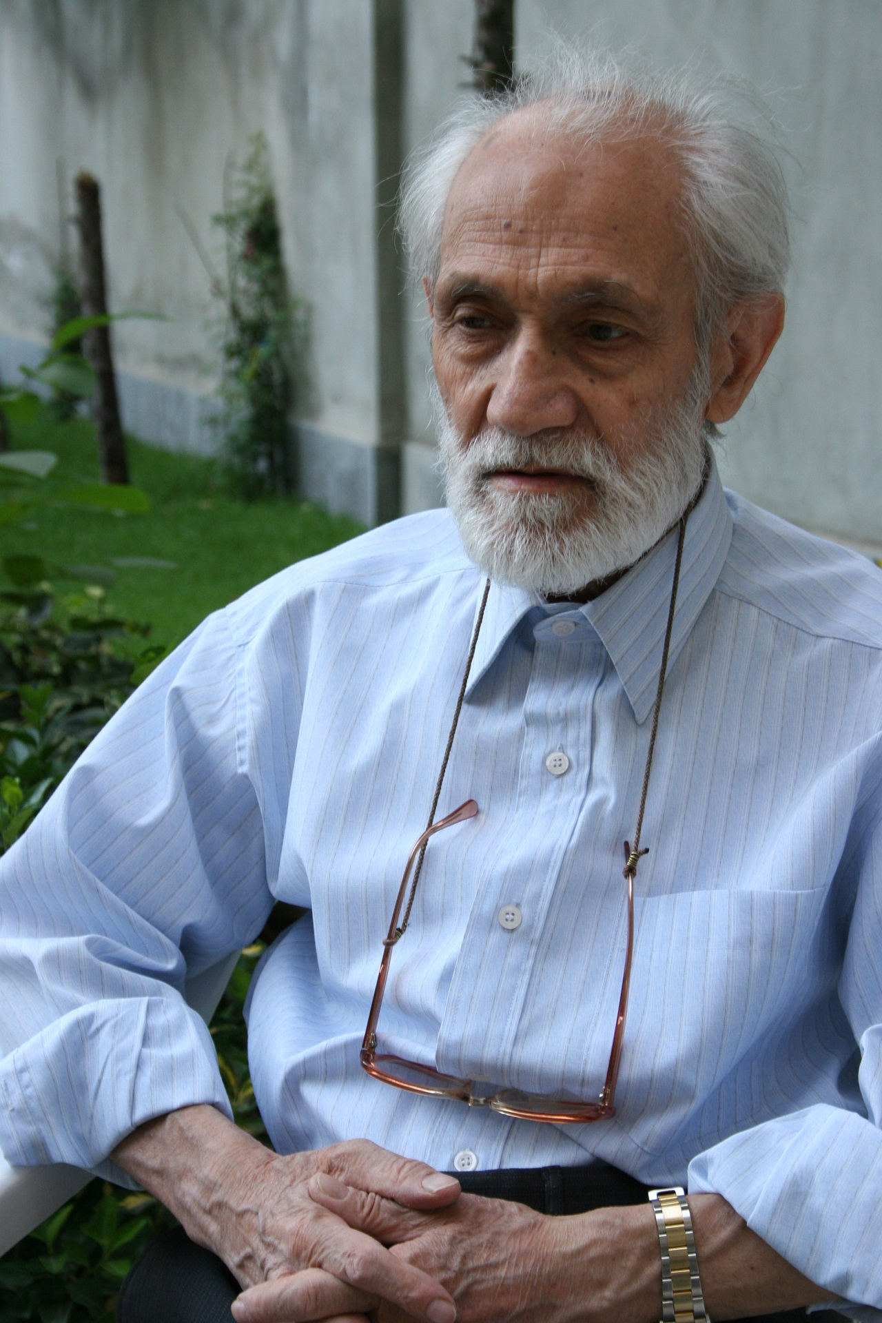 A personal photo of M. Behboudi